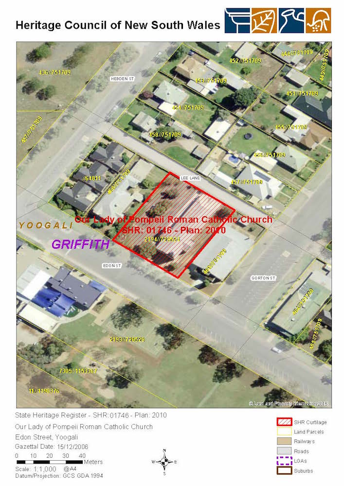 Our Lady of Pompeii Roman Catholic Church, Yoogali: SHR Plan 2012